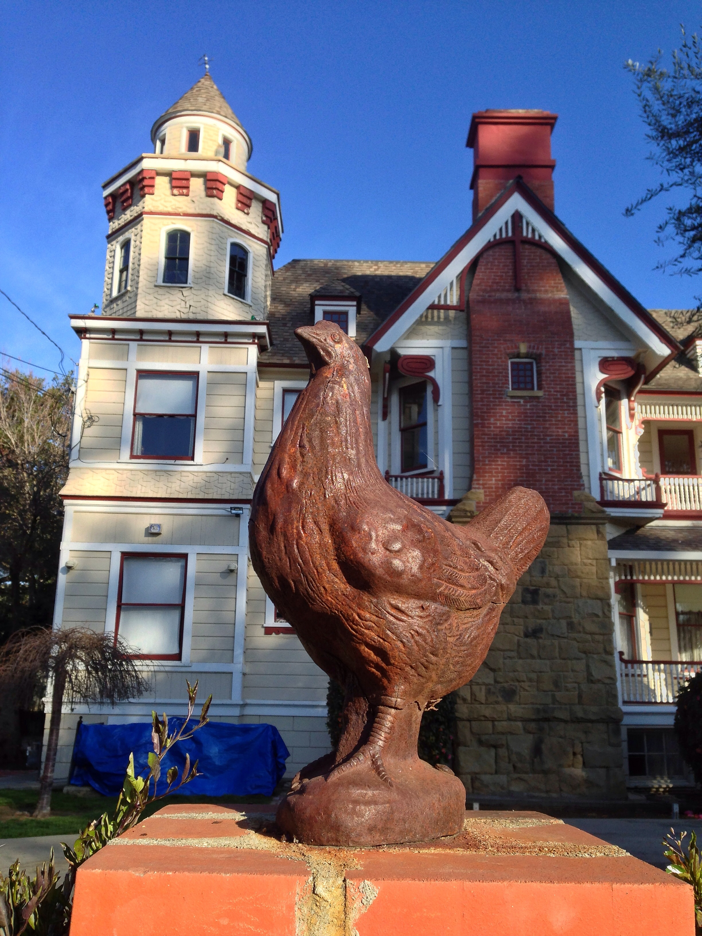 Chicken casting on a fence in front of law offices in Willow Glen